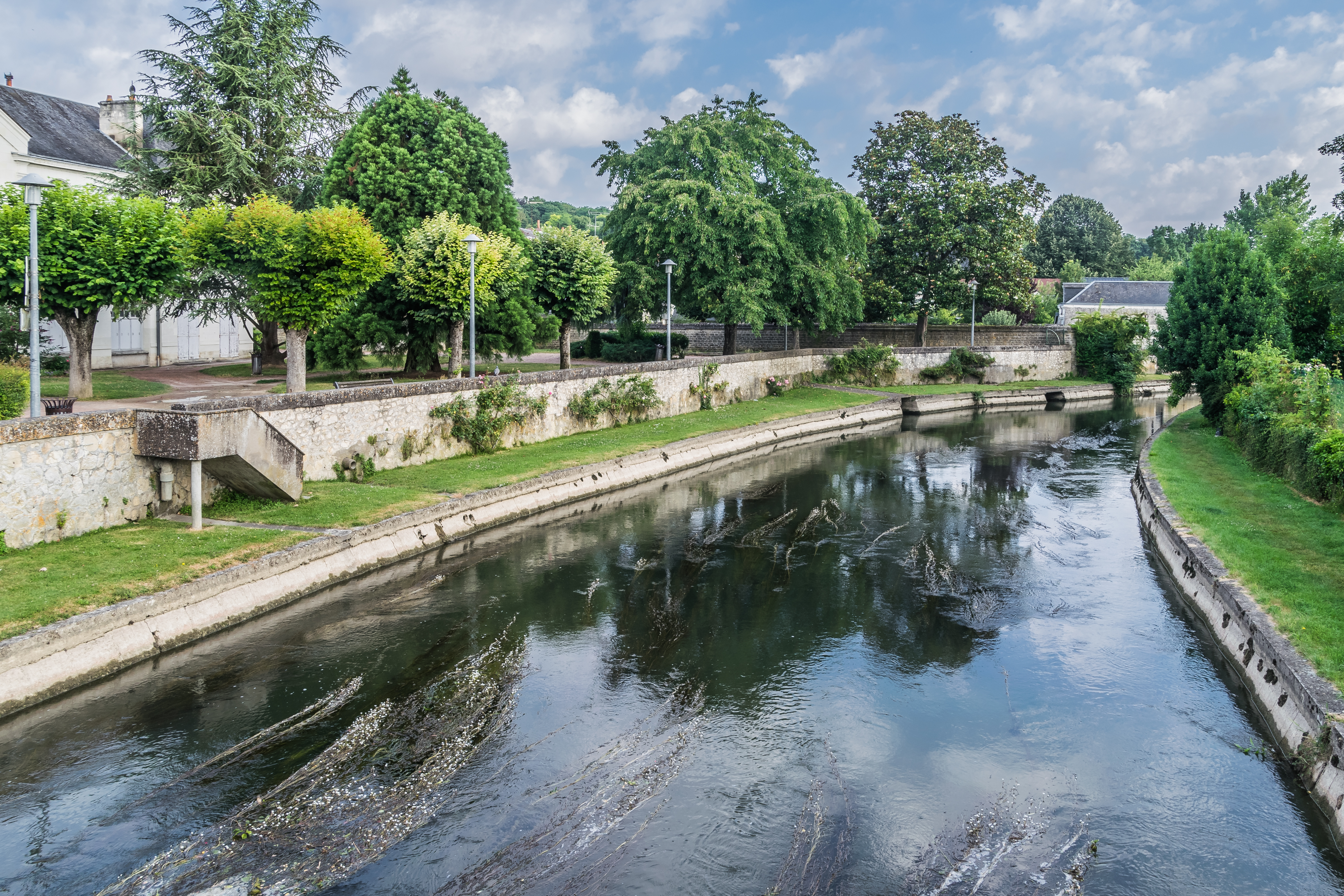 Indre river in Loches, Indre-et-Loire, France